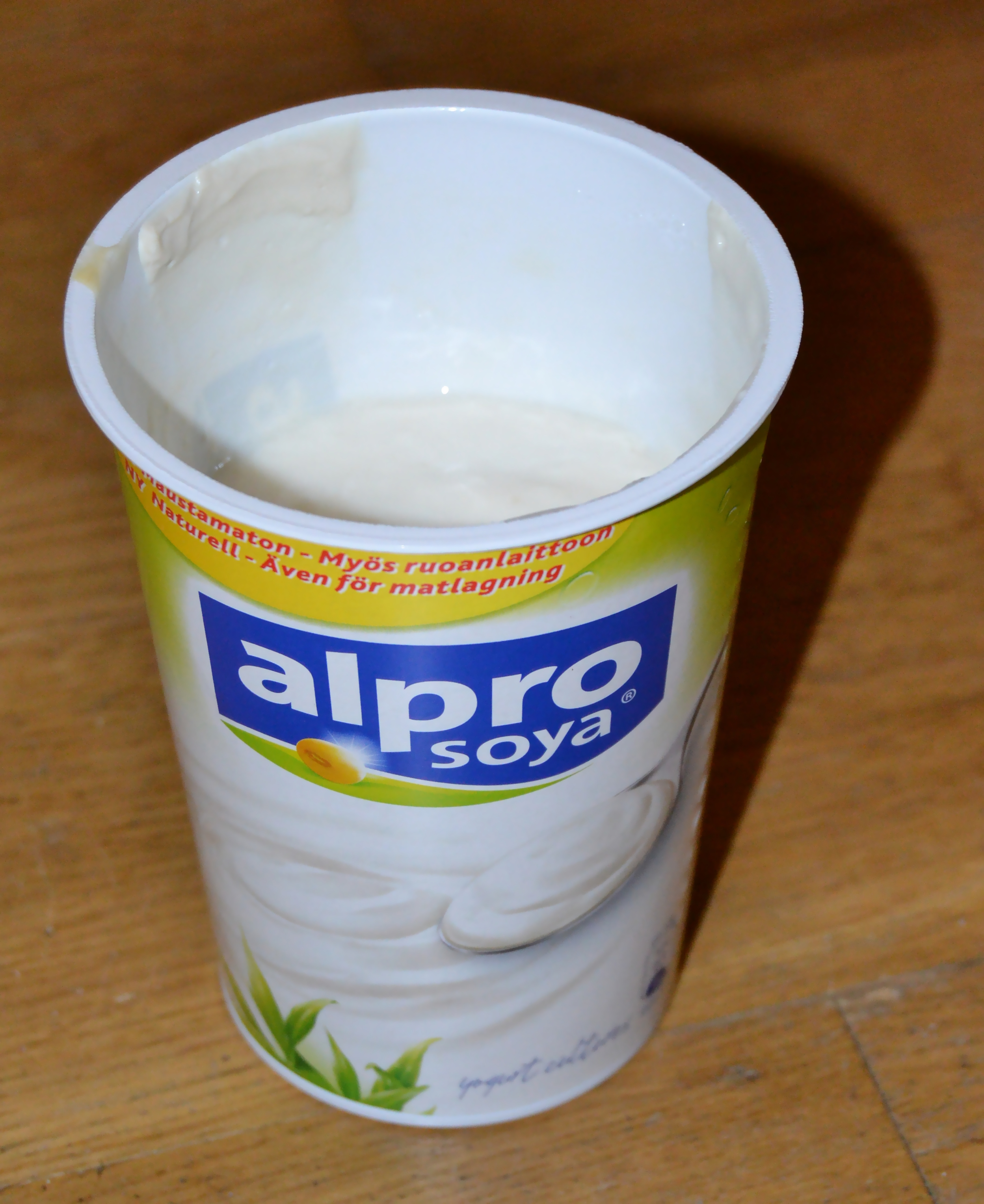 Unseasoned soya yoghurt.